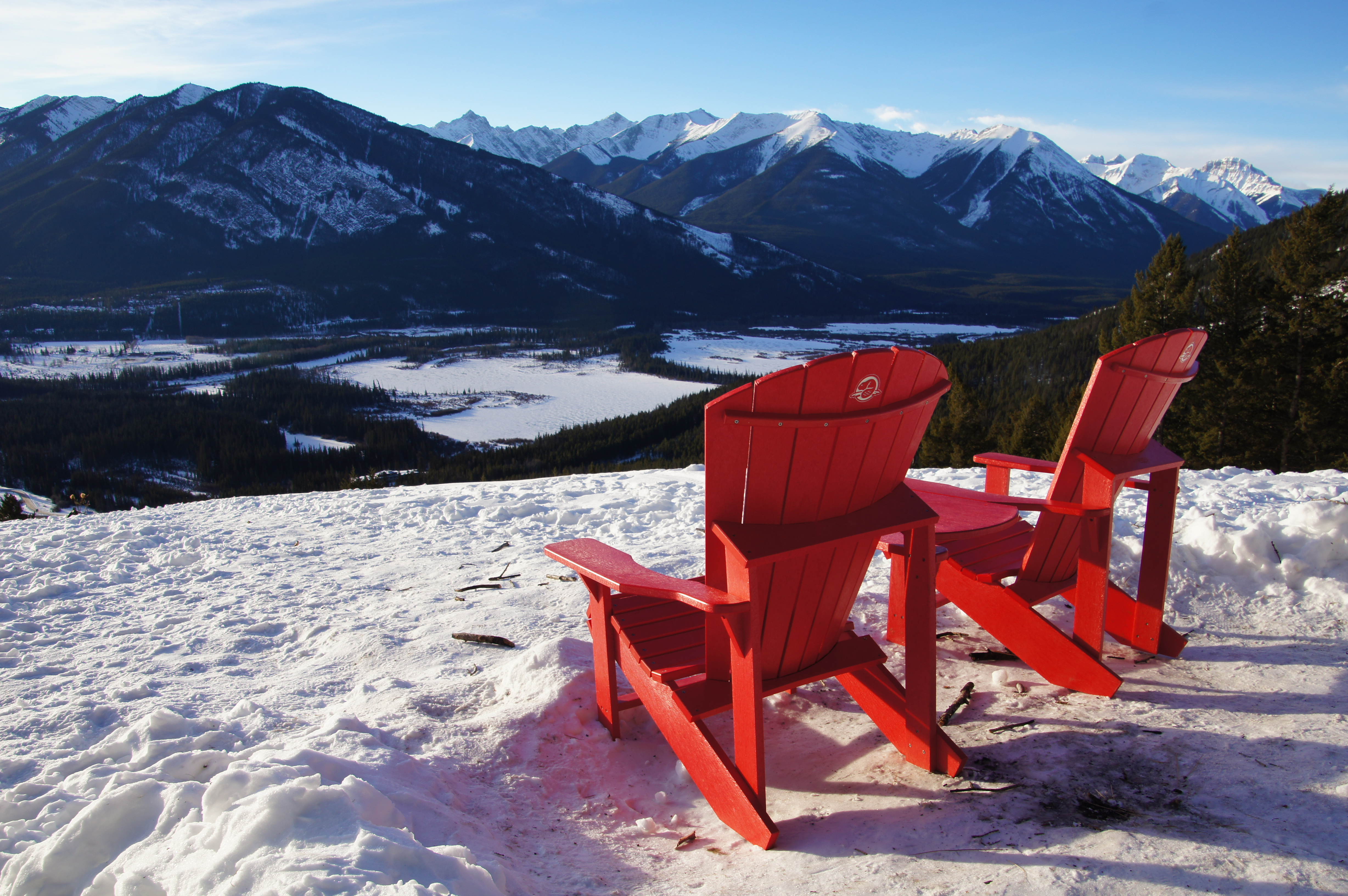 Adirondack chair, overlooking the Bow Valley, Banff, Alberta, Canada